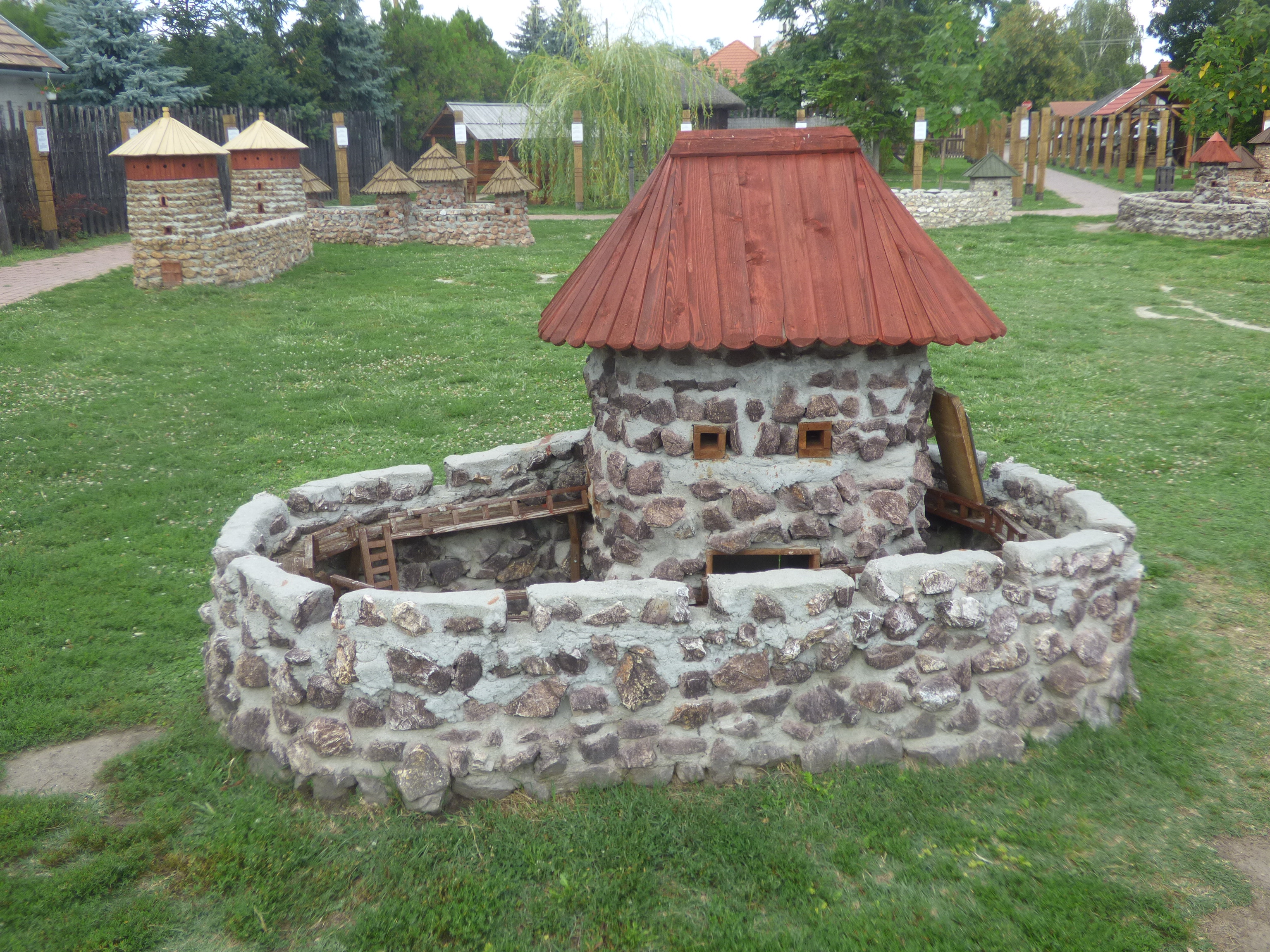 Az erdélyi Izakonyha várának makettje a dinnyési Várparkban